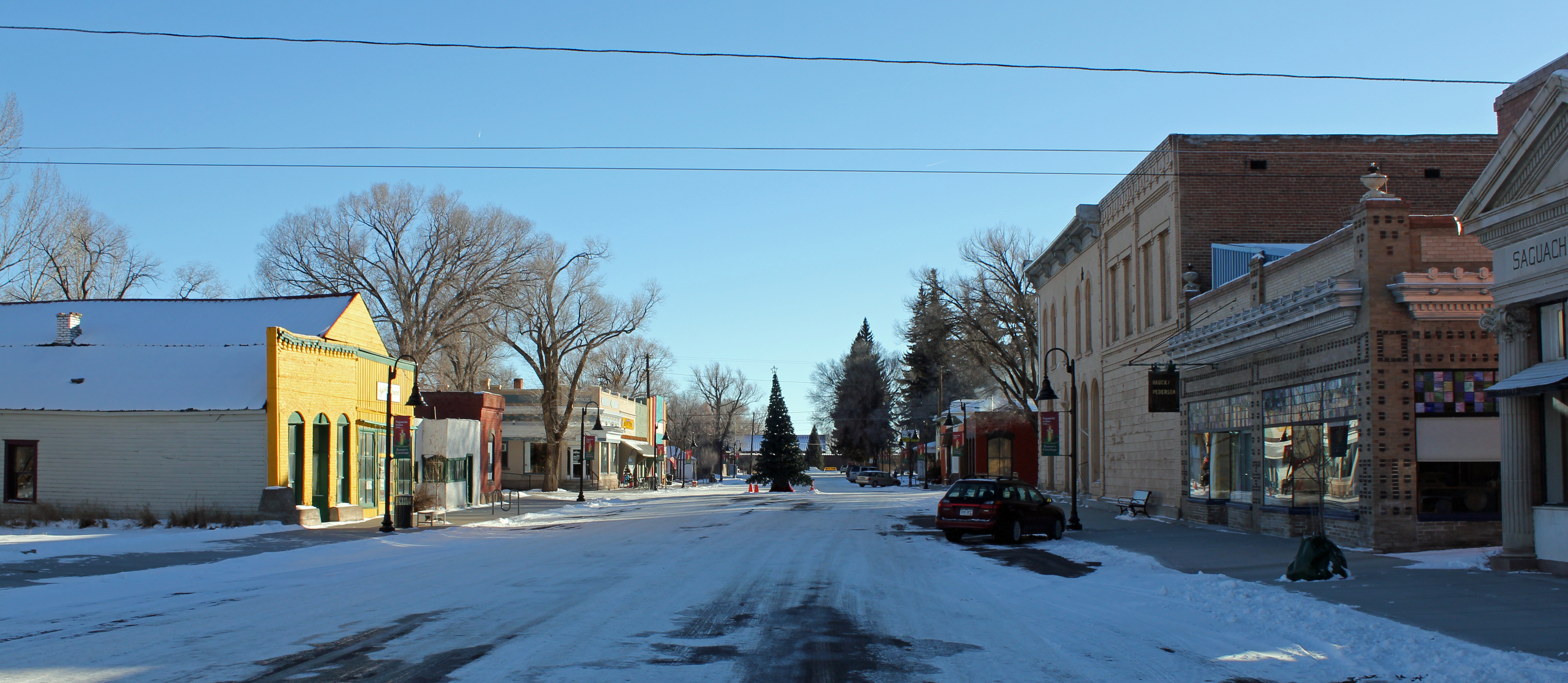 The old downtown business district (4th Street) of Saguache, Colorado.